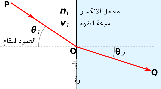 Snell's law